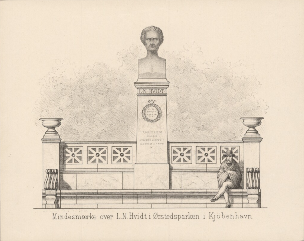 Rendering of the Lauritz Nicolai Hvidt Memorial in Ørstedsparken in Copenhagen, Denmark